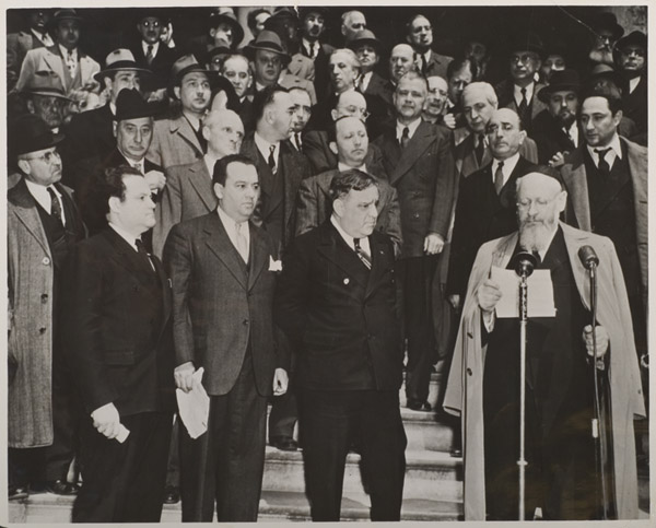 Description: Text of label: Mass demonstration in New York City commemorating the first anniversary of the uprising of the Warsaw Ghetto, held on April 19, 1944. Over 30,000 Jews gathered before the steps of [New York] City Hall and listened to speeches by Mayor La Guardia and prominent Jewish leaders." First row, l-r: M.J. Nurenberger, editor of the Canadian Jewish News; Dr. Joseph Thon ; New York City Mayor Fiorello La Guardia ; Isaac Rubinstein, former Chief Rabbi of Wilno (Vilna), Poland and former member of the Polish senate. Second row, beginning at second from left, l-r: Yiddish writer Sholem Asch ; Polish poet Julian Tuwim ; Dr. Simon Segal ; writer S.L Schneiderman ; (behind him) artist Arthur Szyk ; writer Dr. Chaim Shoshkes, ; Cantor Moishe Oysher. Photographer: unknown Date: 1944 Medium: Black and white photograph Repository: Yivo Institute for Jewish Research Parent Collection: RG 1206 Persistent URL: Rights Information: No known copyright restrictions; may be subject to third party rights. For more copyright information, click here. See more information about this image and others at CJH Digital Collections. Digital images created by the Gruss Lipper Digital Laboratory at the Center for Jewish History.